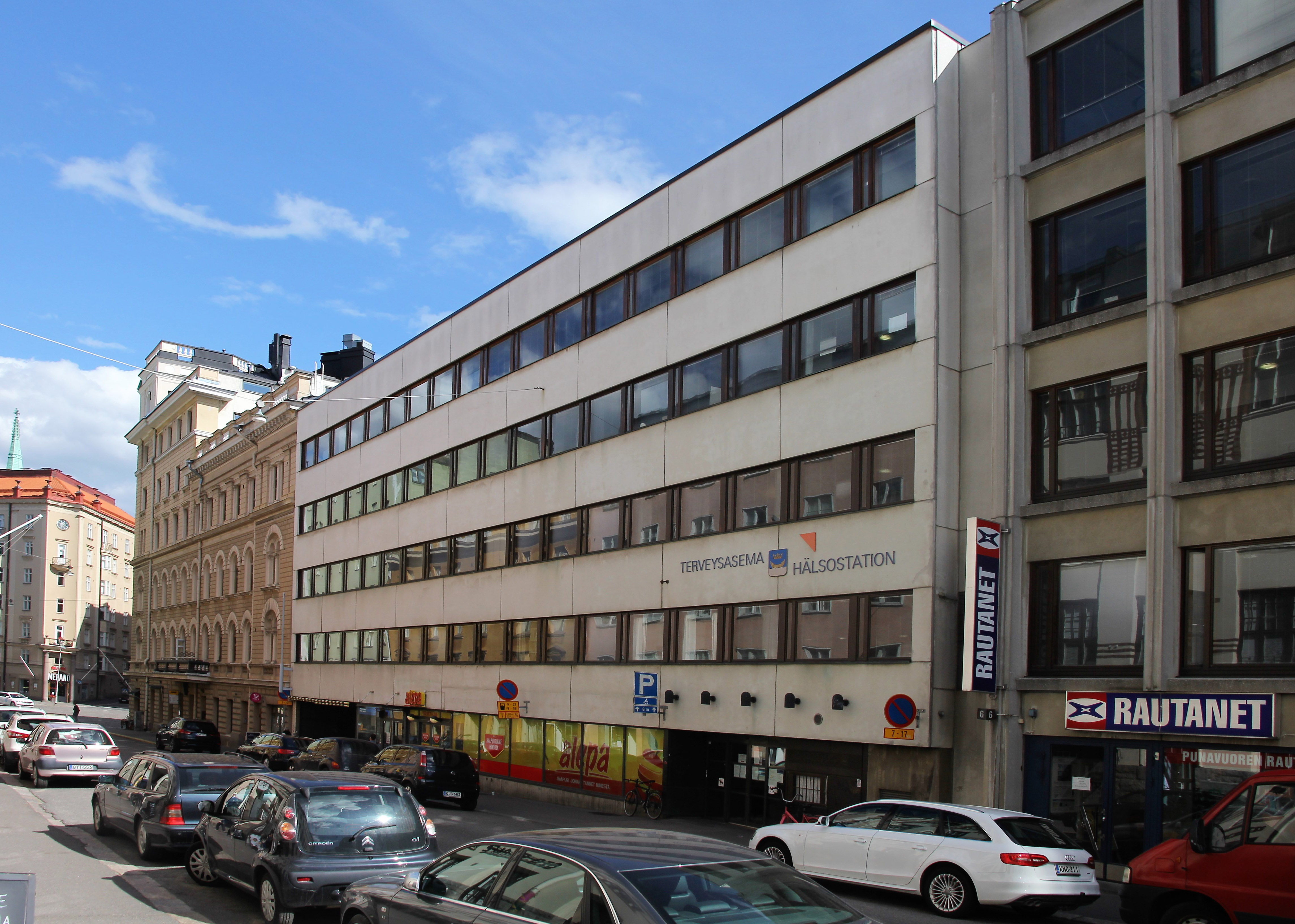 Viiskulma Health Station. Address: Pursimiehenkatu 4, 00150 Helsinki.